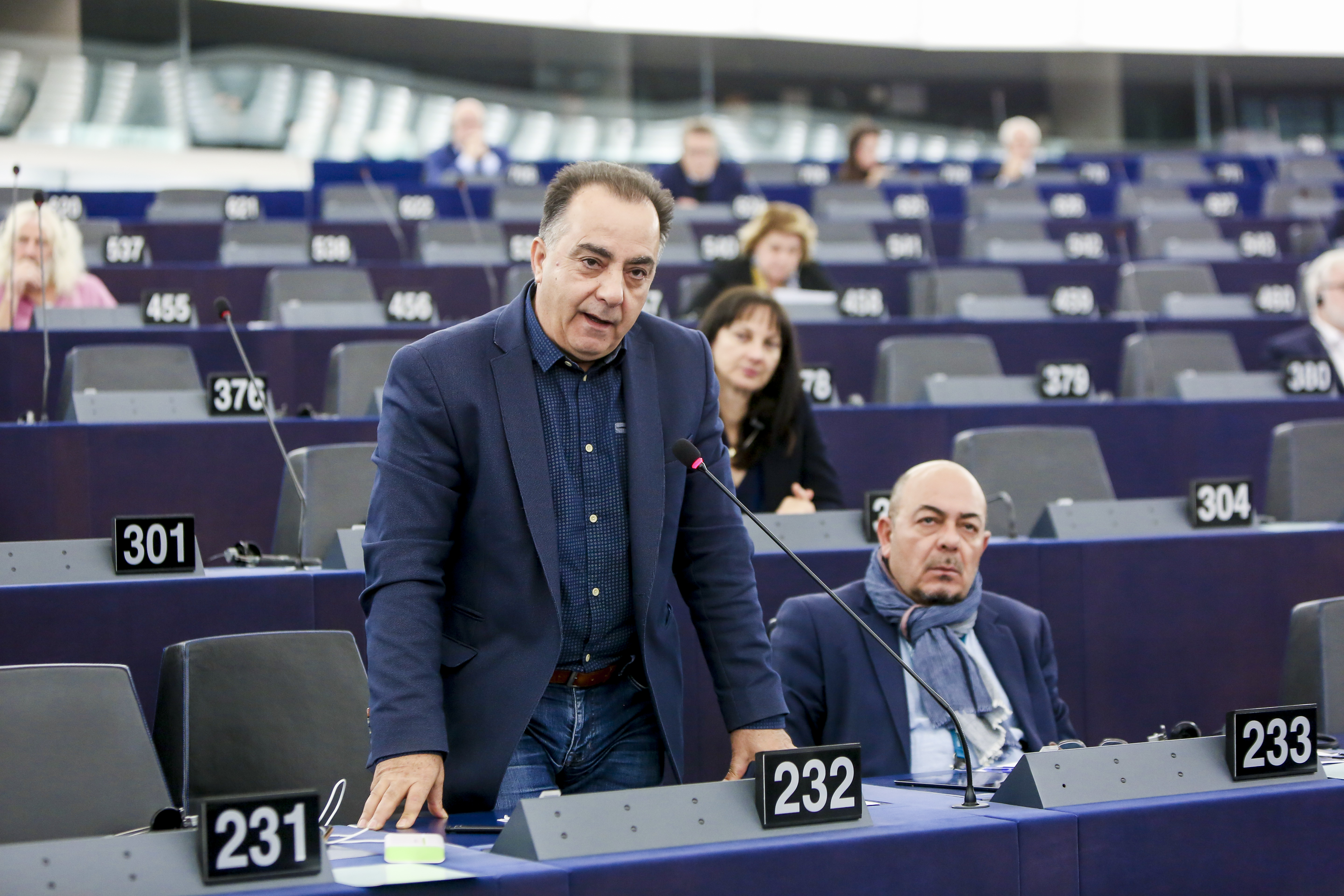 Plenary session - The Turkish military operation in northeast Syria and its consequences